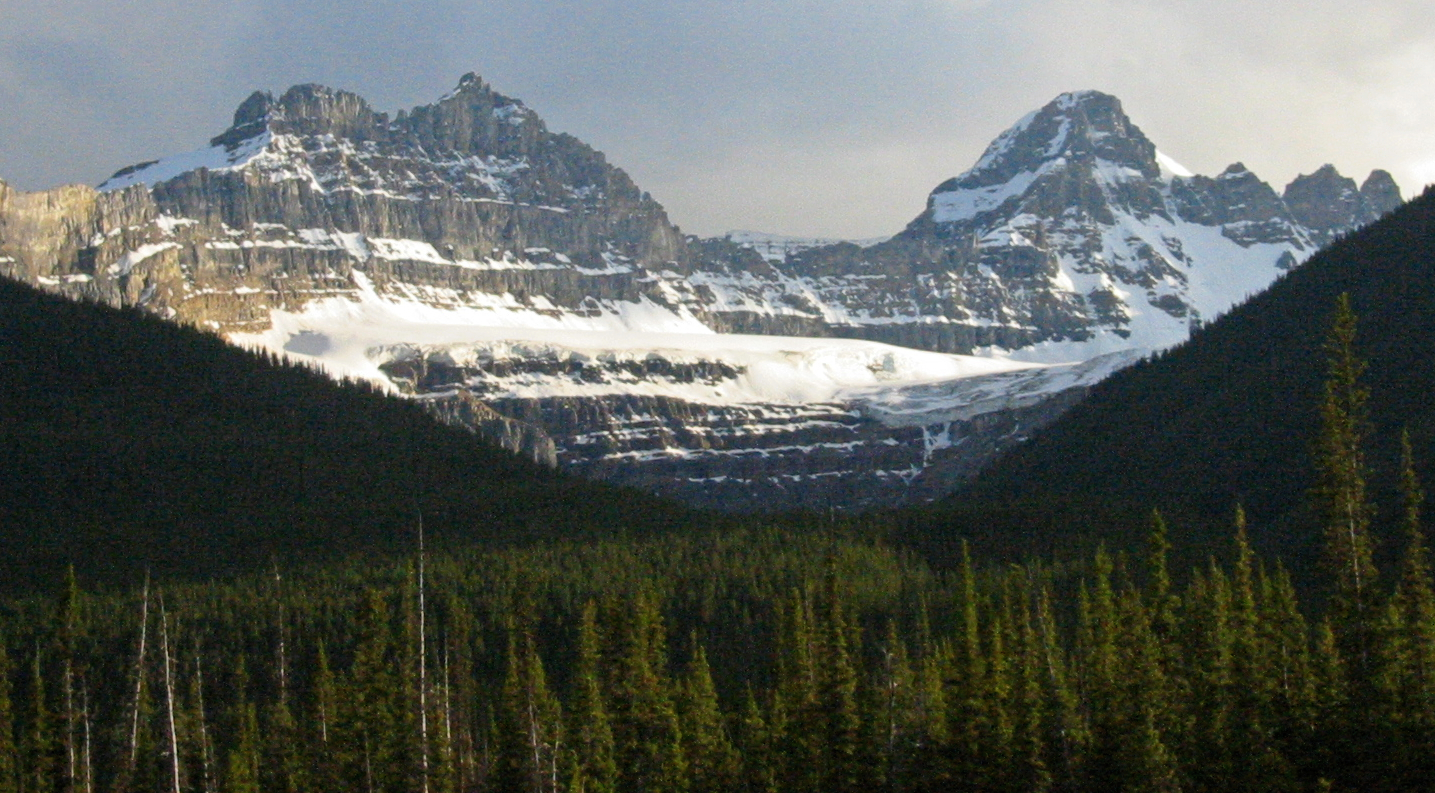 Mushroom Peak (left) and Diadem Peak seen from the Icefields Parkway in Jasper National Park, Canada